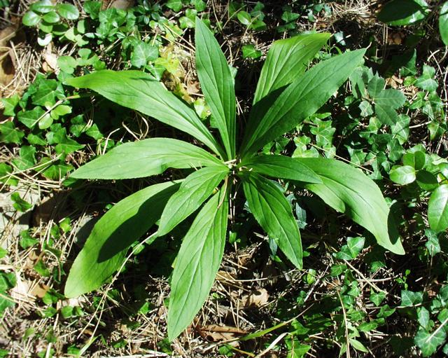 (en)Small yellow Foxglove Digitalis lutea, a photography originating of the internet site The accord of the autor, H. Brisse, is here. (fr) Digitale à petites fleurs (Digitalis lutea), une photographie issue du site internet L'accord de l'auteur, H. Brisse, se situe ici. (de)Gelber Fingerhut, (it)Digitale gialla piccola